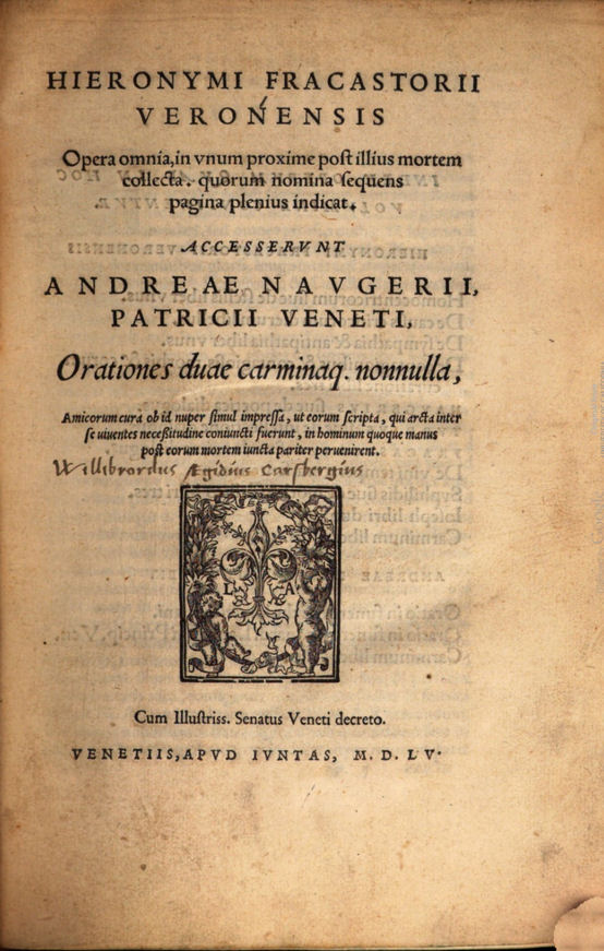 Titlepage of the collected works of Girolamo Fracastoro, first (posthumous) edition of 1555.